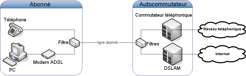 Principle of ADSL on subscriber line